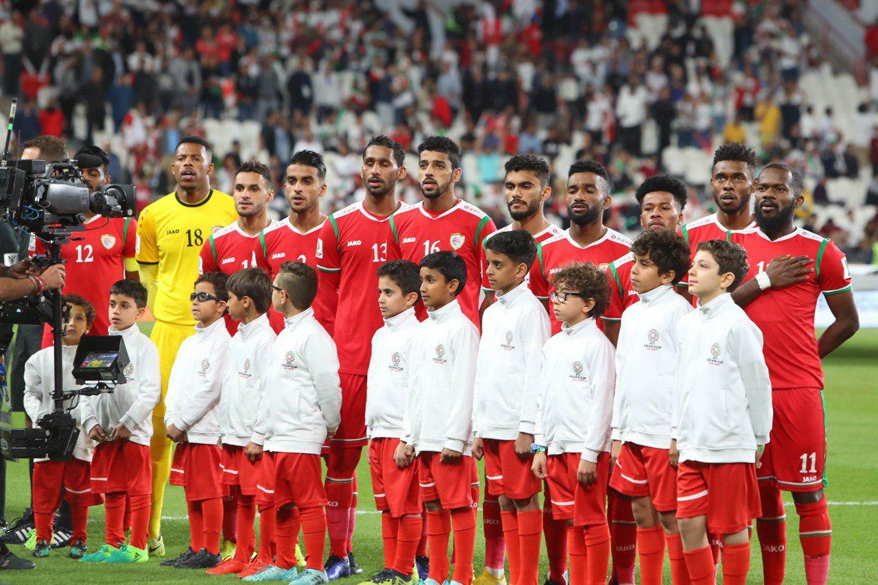 Iran-Oman Round of 16, 2019 AFC Asian Cup